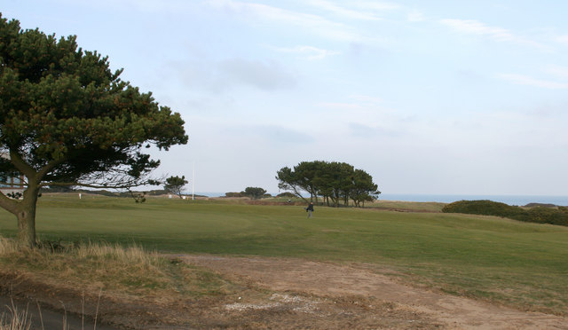 Murcar Golf Course. A great links course north of Aberdeen.